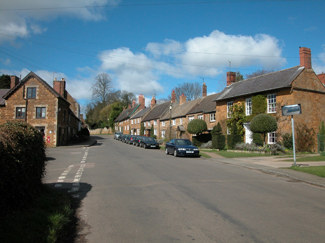 Adderbury, Oxfordshire